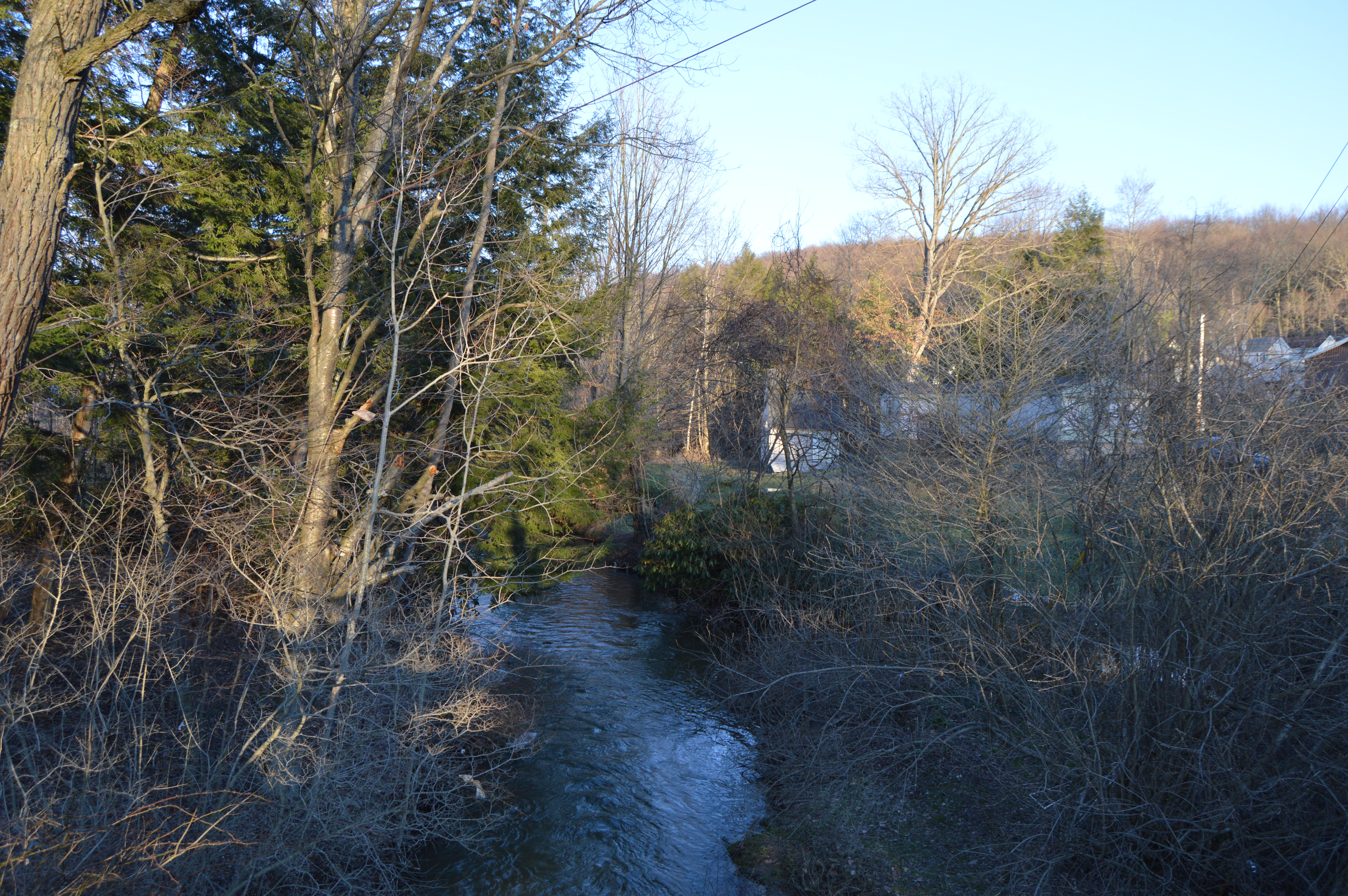 Looking east (downstream) along Kratzer Run from Kratzer Run Road at Stronach in Penn Township, Clearfield County, Pennsylvania, United States.